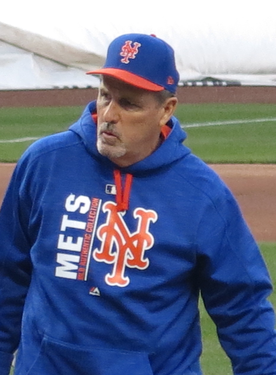 Pat Roessler.